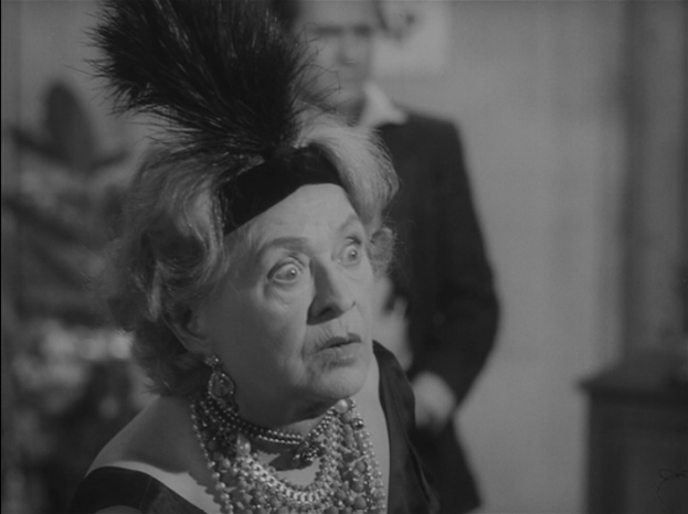 Profile image of actress Myrtle Vail, in the public domain film The Little Shop of Horrors.